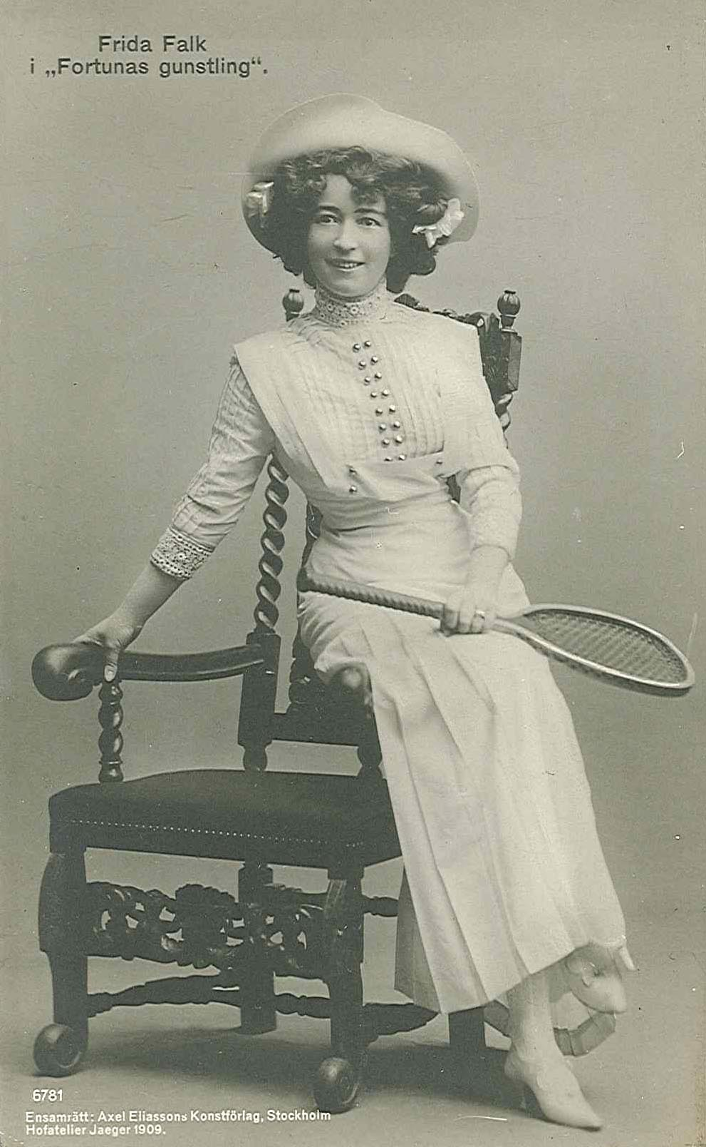 Frida Falk (1875-1948), Swedish operetta singer.